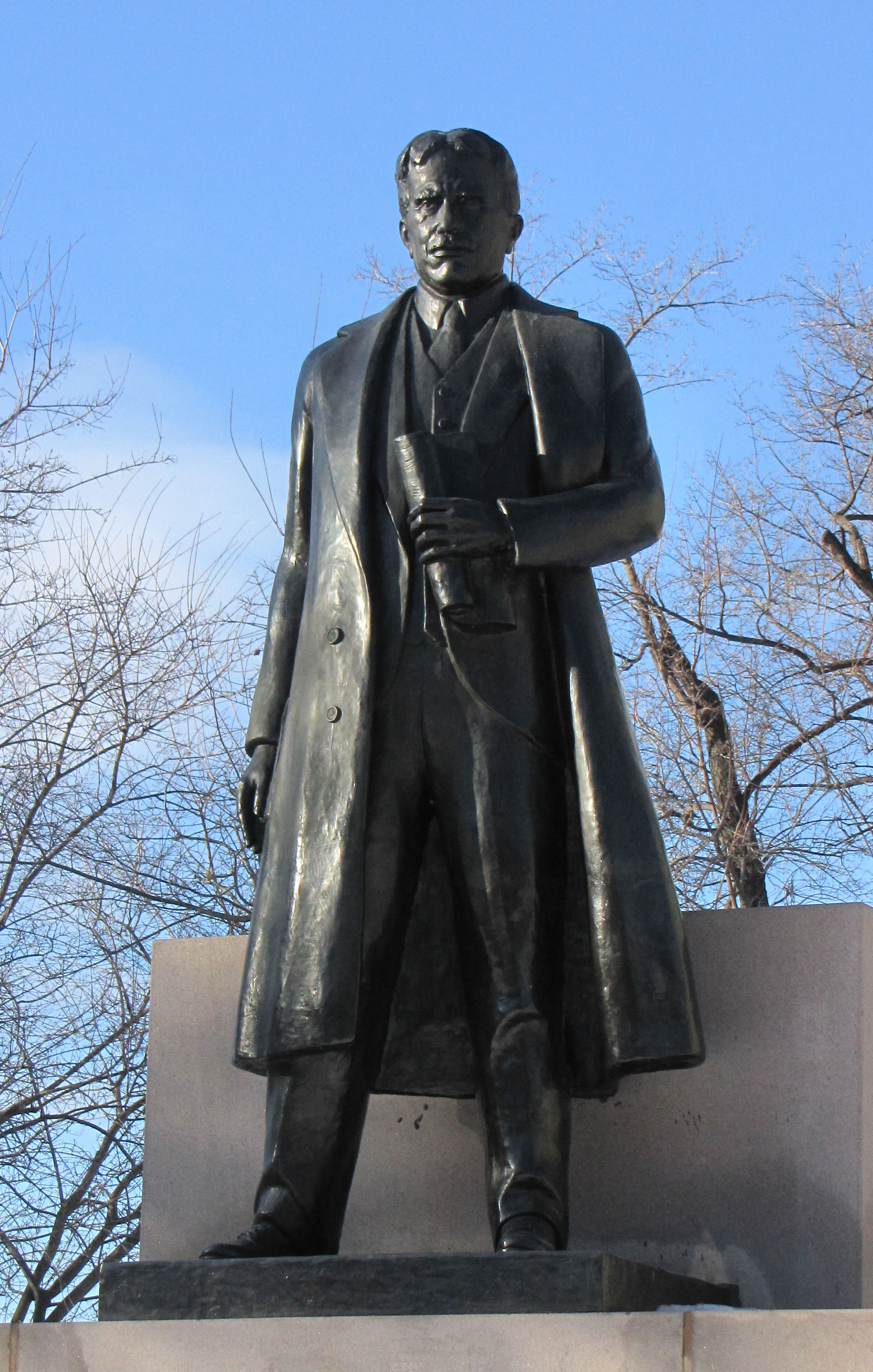 Sir Robert Borden (1854-1957), statue, Parliament Hill, Ottawa